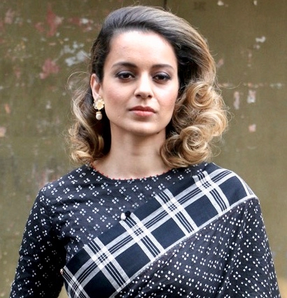 Kangna Ranaut snapped on (15 February 2017) at the sets of Indian Idol 9 during the promotions of her film ‘Rangoon’ in Mumbai.